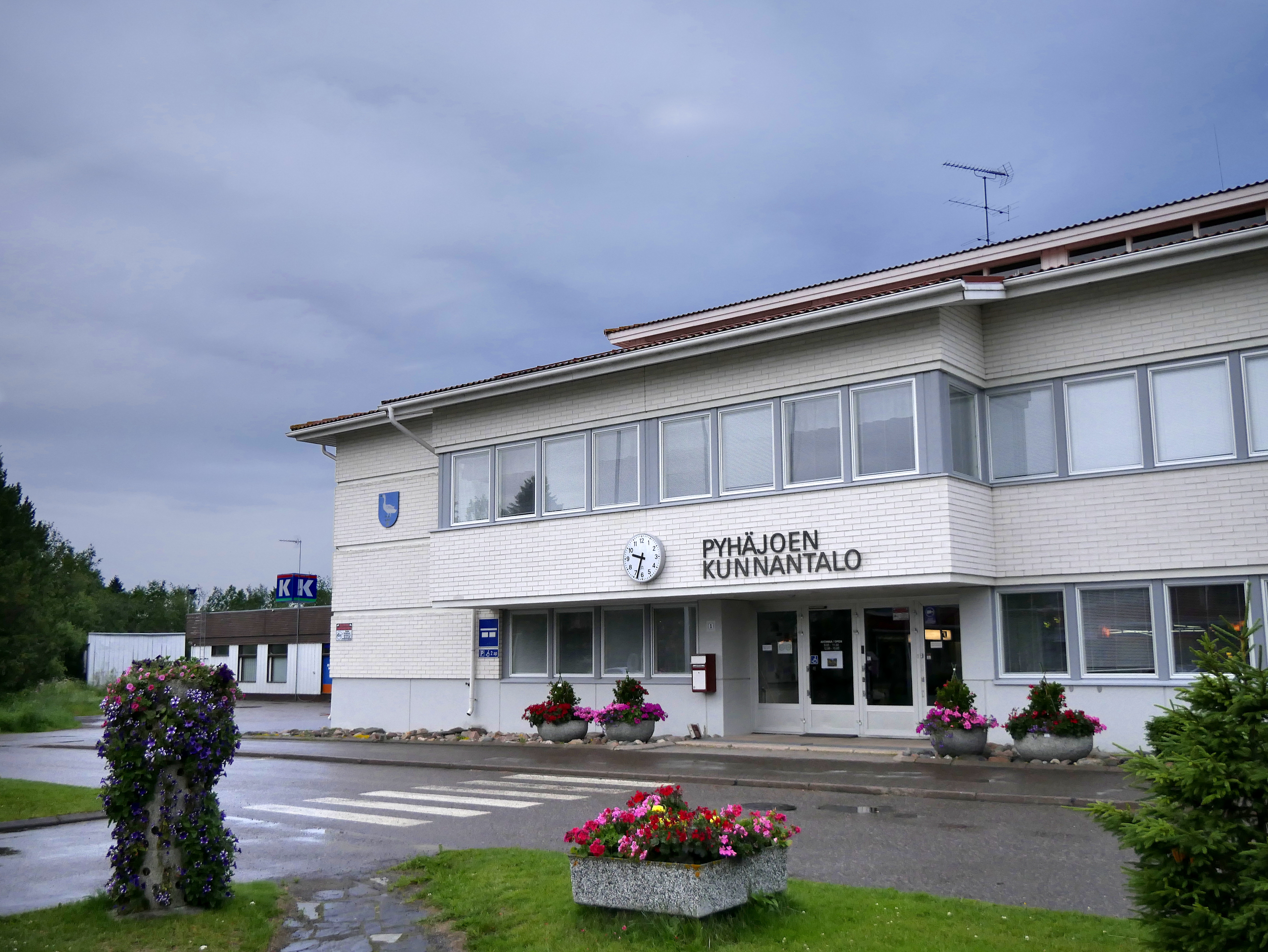 Pyhäjoki municipal office.